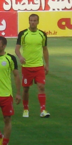 Mohsen Bengar, Iranian footballer